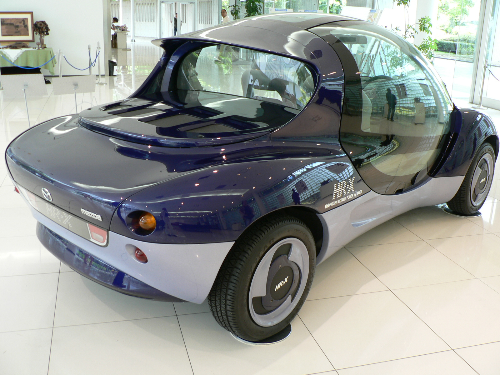 MAZDA HR-X('91)